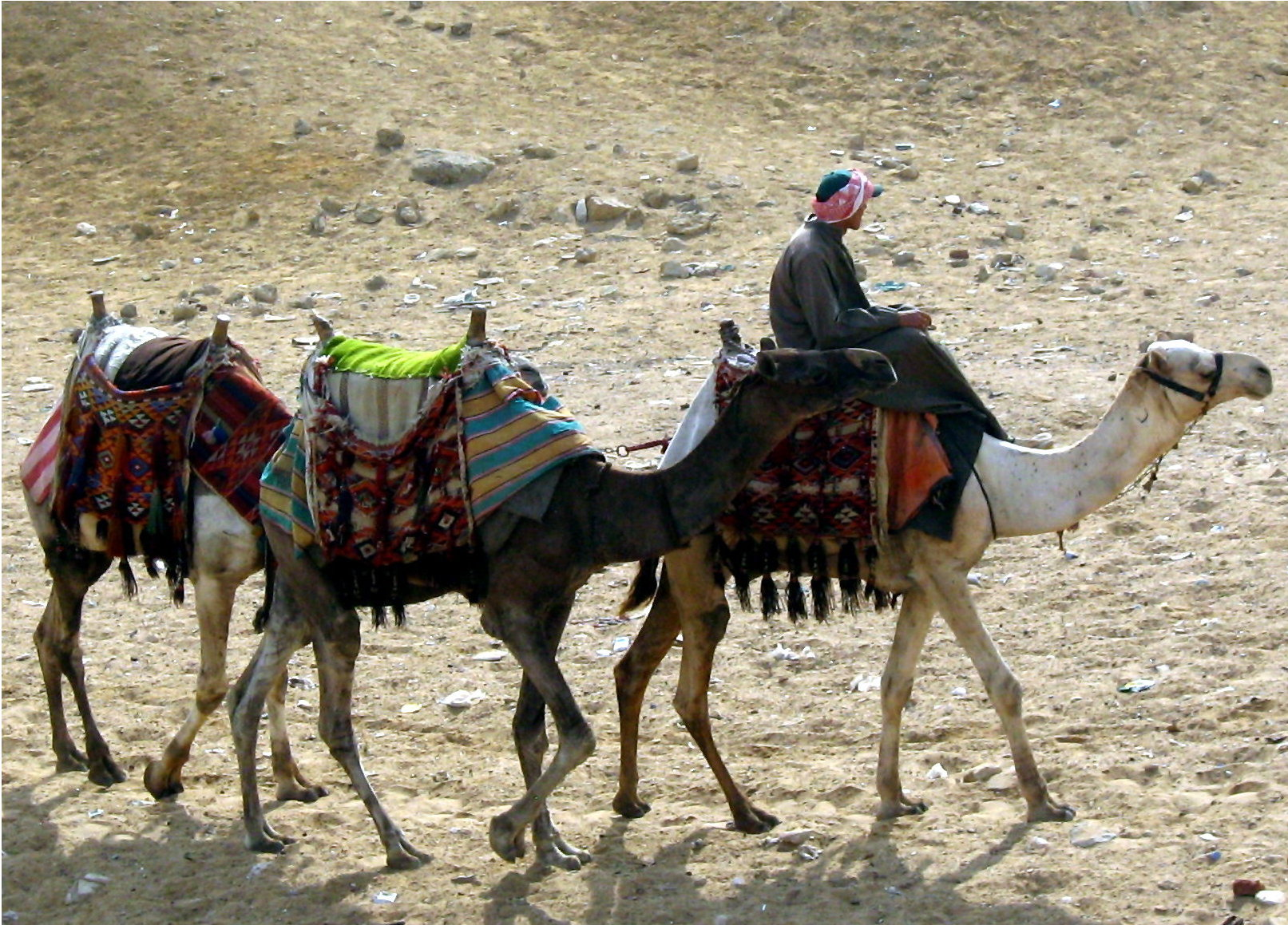 A photograph of three camels, taken at the Pyramids of Giza